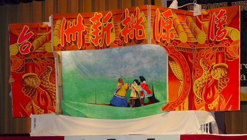 Puppet Show of Auntie Tigress